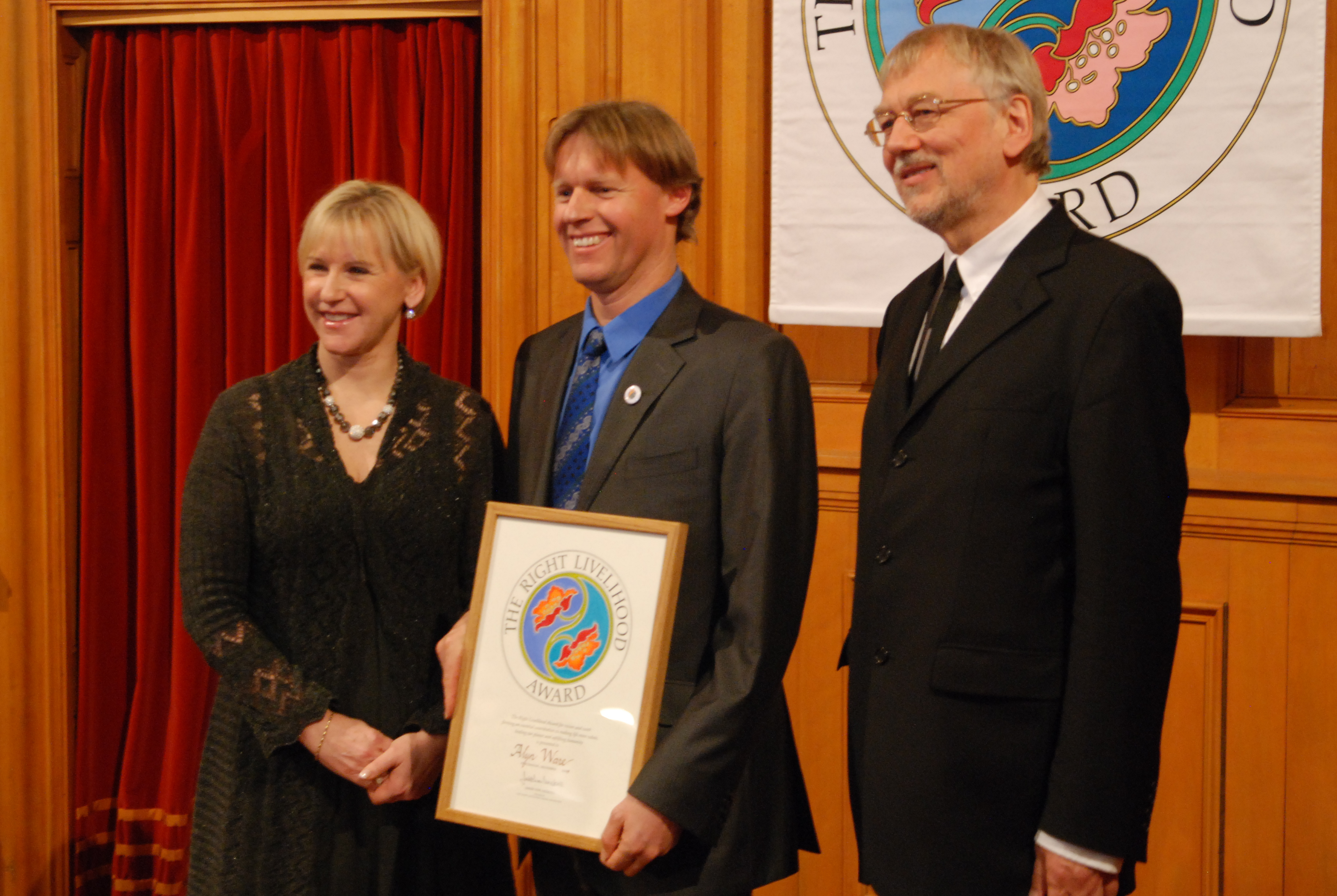 Award Ceremnony of the 30th Right Livelihood Award 2009: Margot Wallström, Alyn Ware and Jakob von Uexküll (left to right).